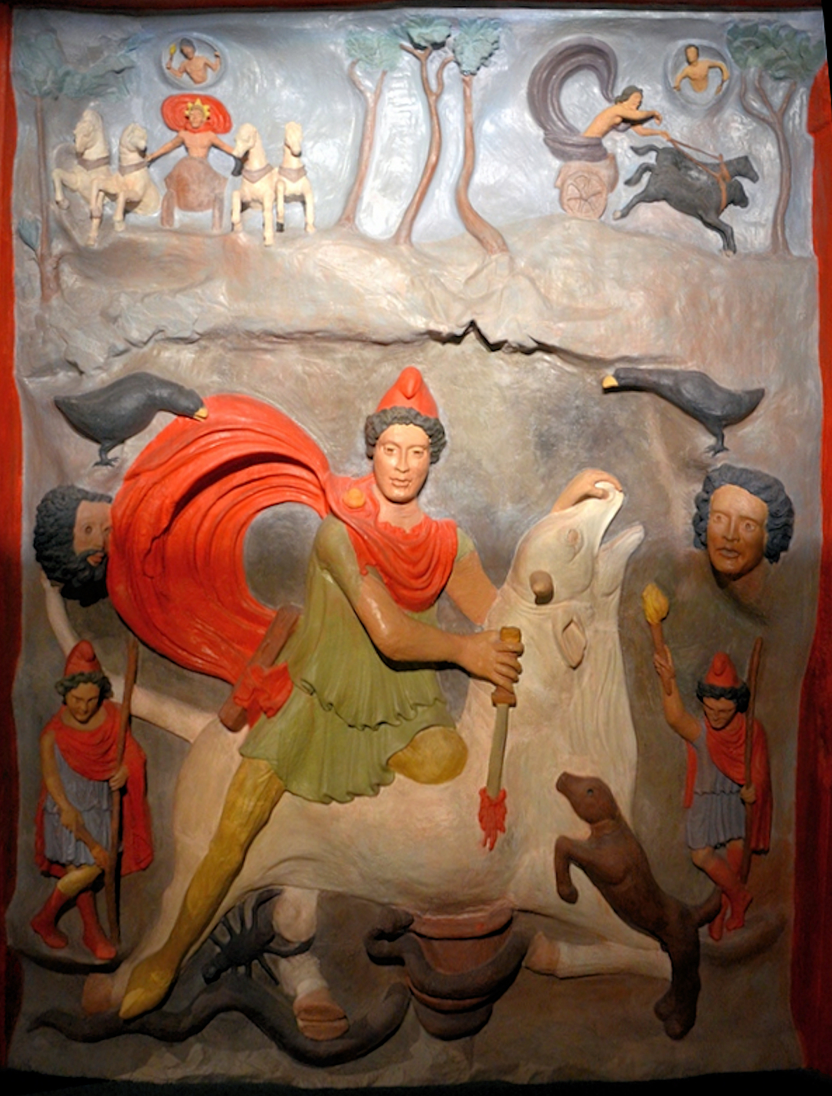 Strasbourg-Koenigshoffen, Second-Century Mithraic Relief, Reconstruction ca. 140 CE–ca. 160 CE